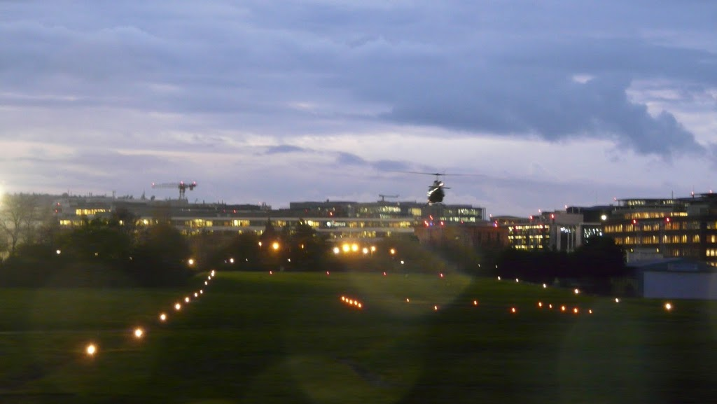 helicopter taking off at Issy les Moulineaux